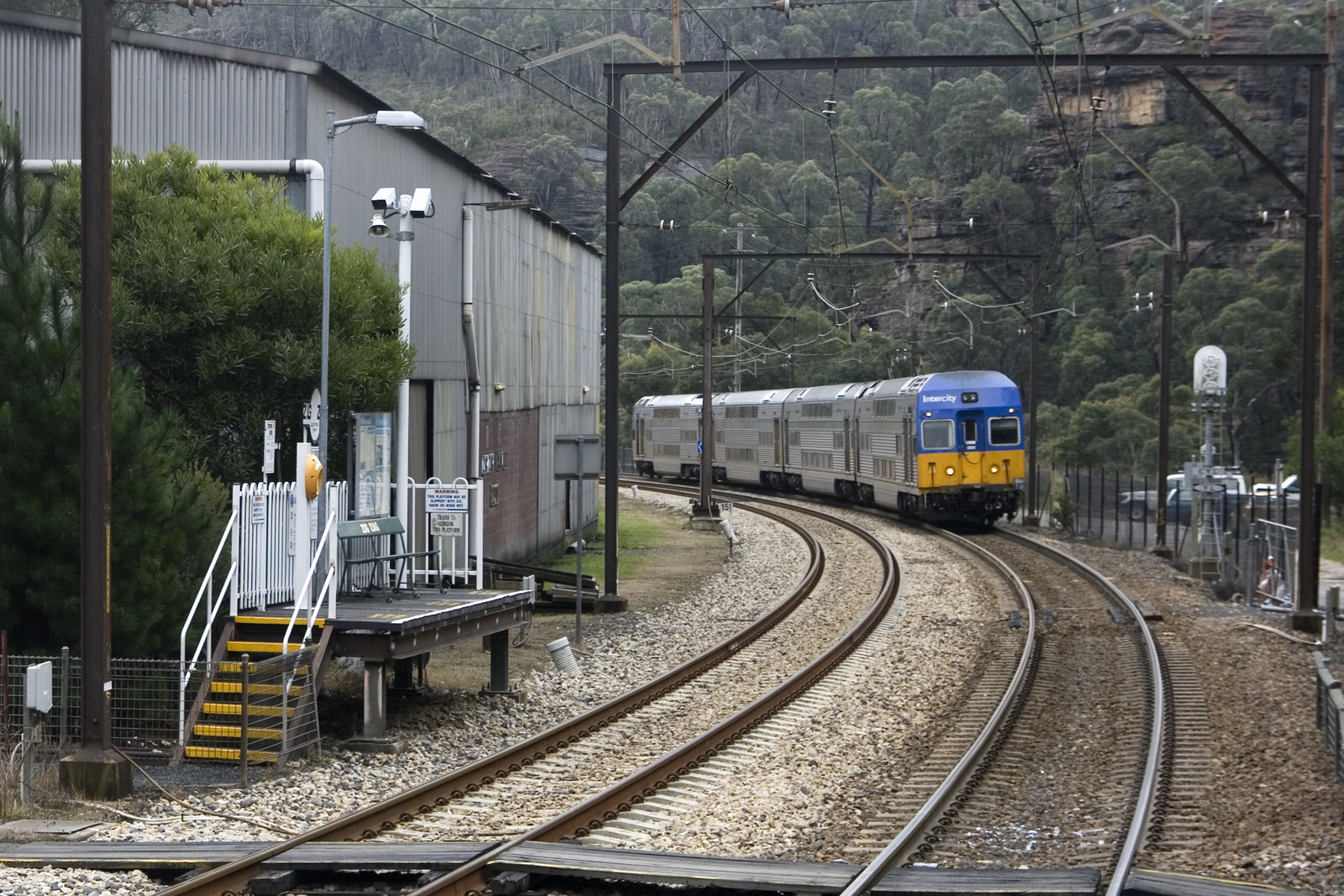 Train approaches Zig Zag station.jpg